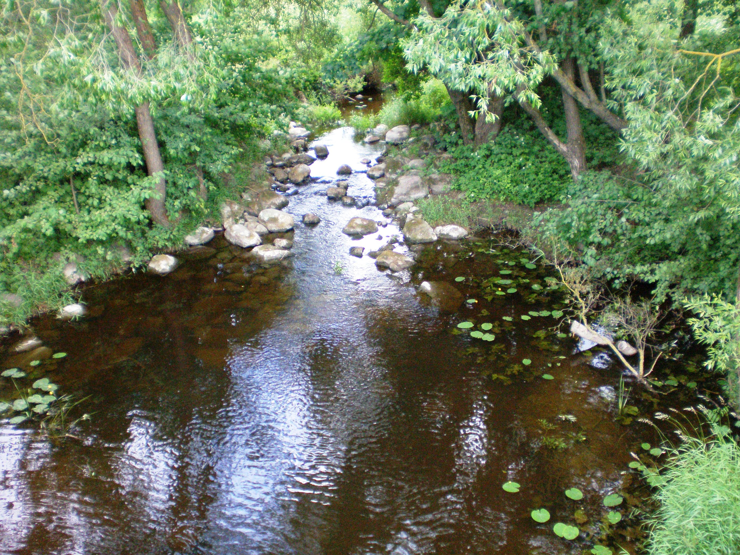 Linkava River in Krekenava